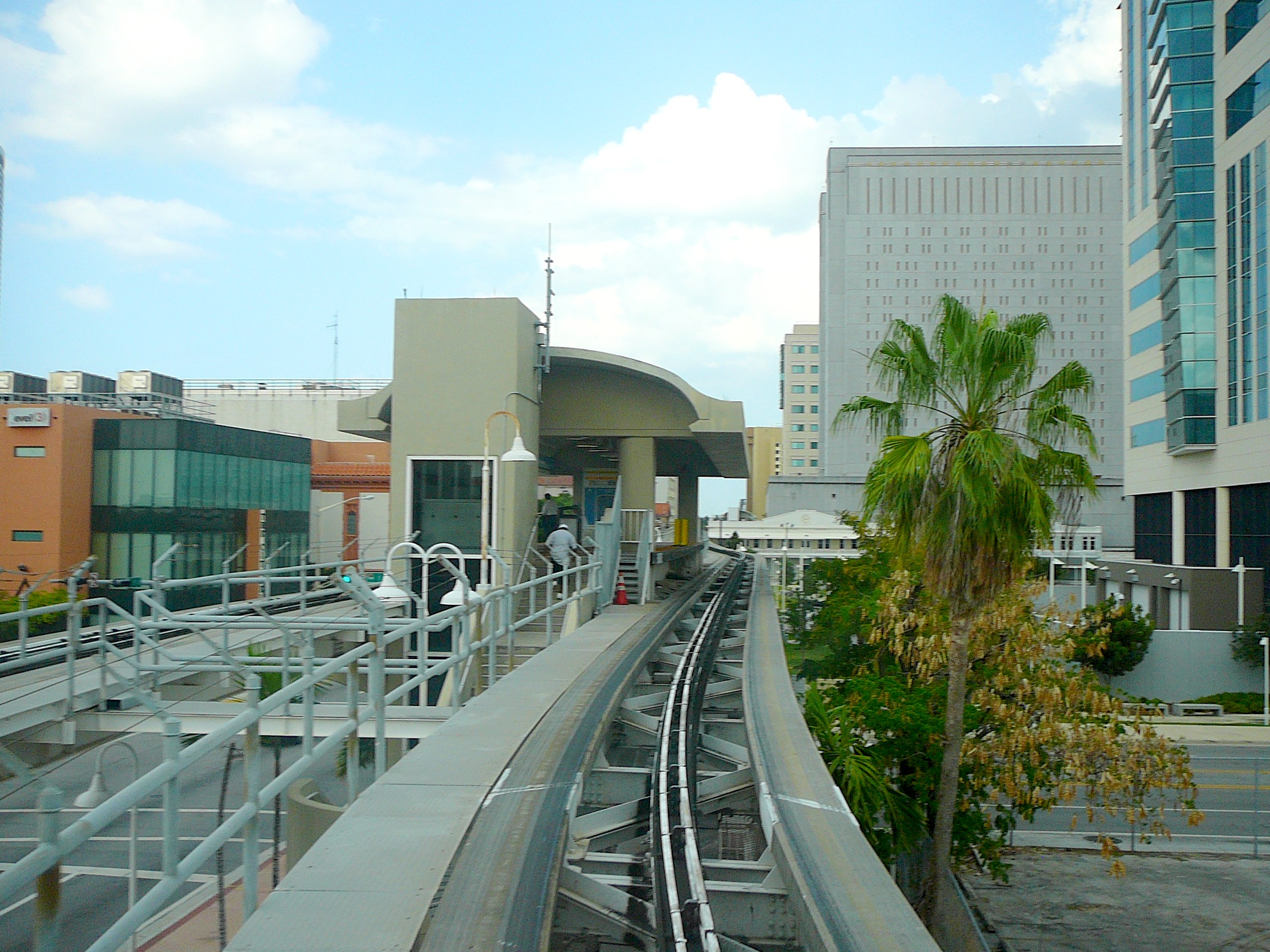 Digital photo taken by Marc Averette. The Arena/State Plaza Metromover station in downtown Miami on 5/10/2008